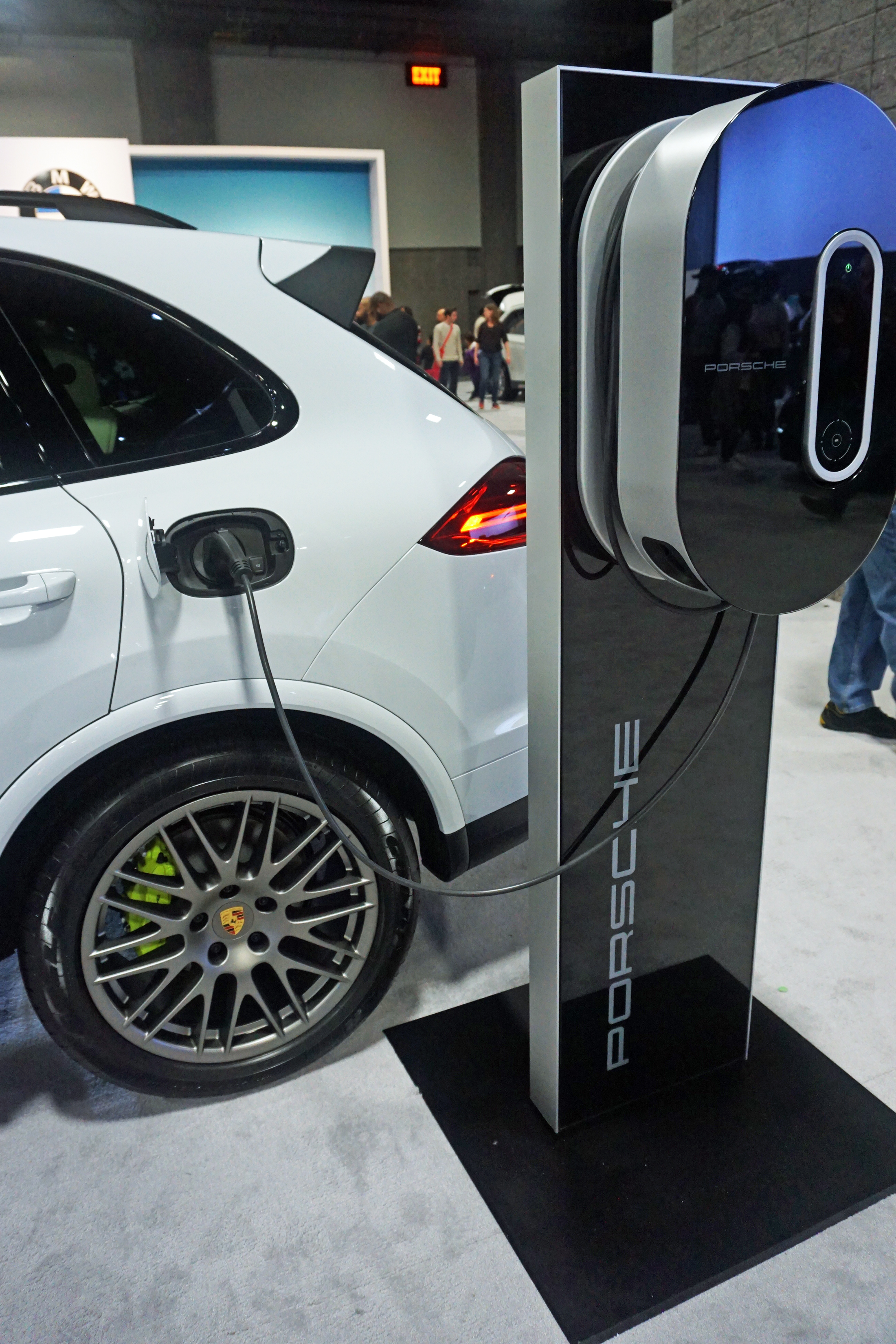 2017 Porsche Cayenne S e-hybrid Platinum charging port. 2017 Washington Auto Show, DC, USA.